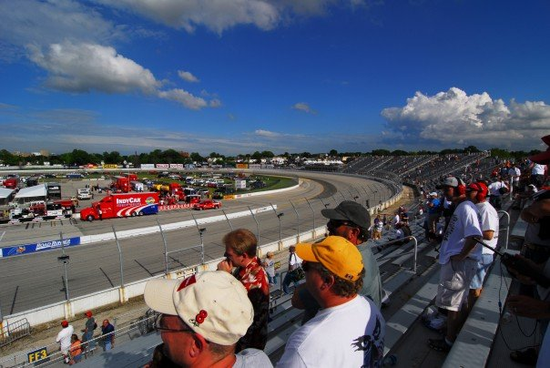 A picture from the stands of and at the Milwaukee Mile racetrack. Taken by MadMaxMarchHare.